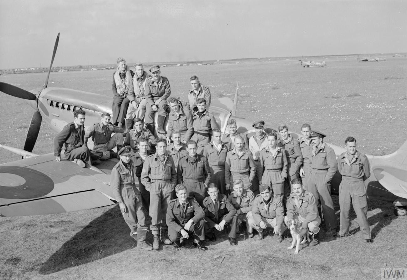 Royal Air Force- Italy, the Balkans and South-east Europe, 1942-1945. Pilots of No. 145 Squadron RAF grouped in front of one of their Supermarine Spitfire Mark VIIIs at Triolo landing ground, south of San Severo, Italy. The Commanding Officer, Squadron Leader L C Wade, is standing second from right.